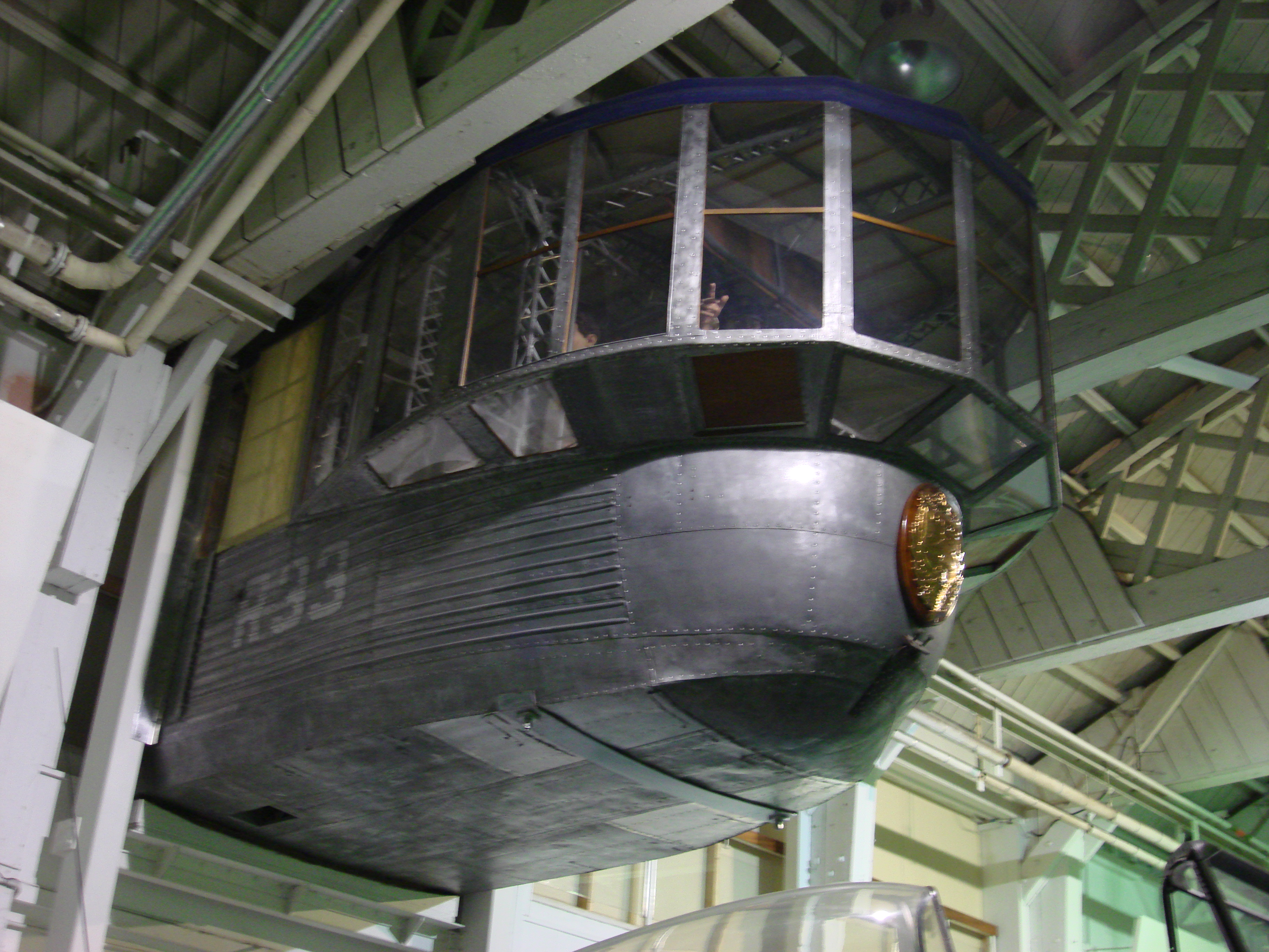 His Majesty's Airship R33 Control Car section, at the RAF Museum, London.